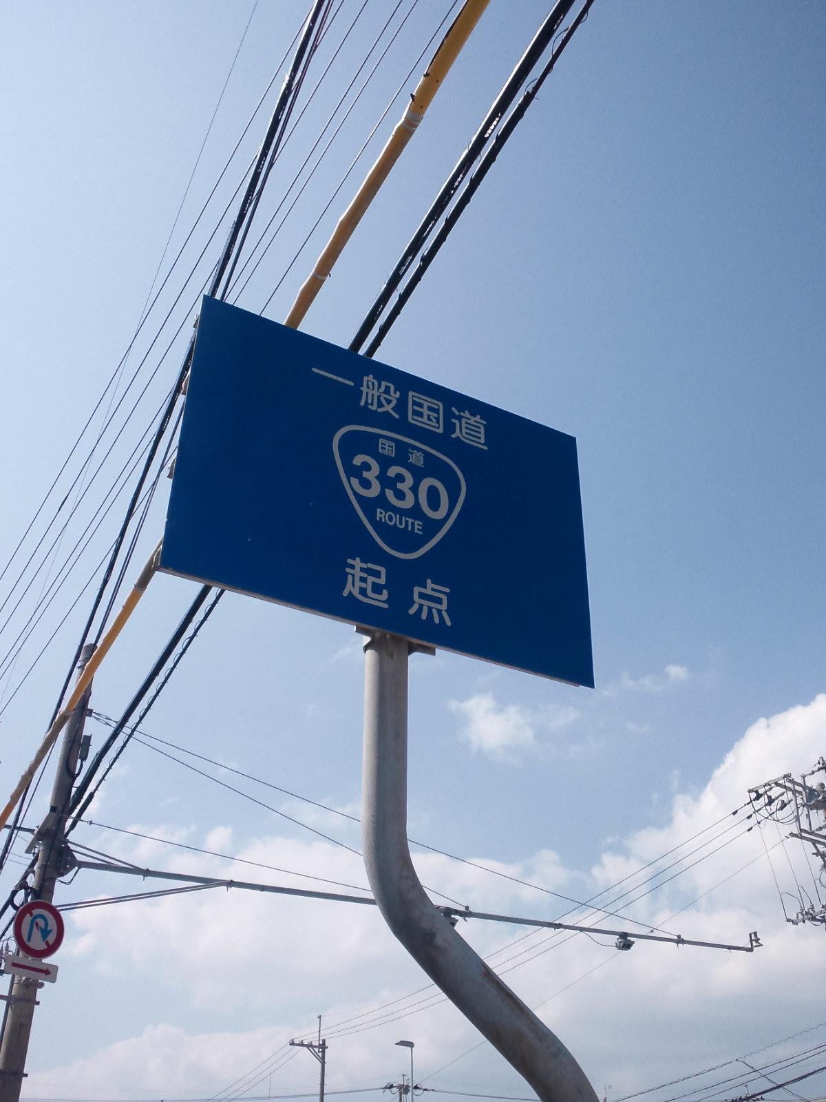 Starting point of the National Route 330 of Japan